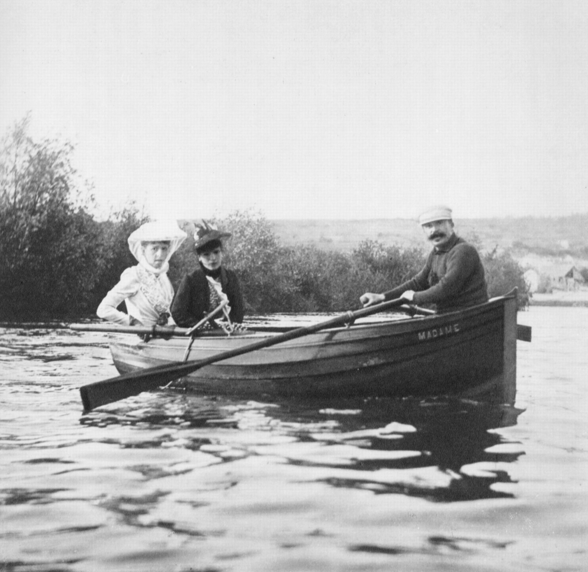 Geneviève Straus (Madame Bizet), Mme Maurice Lippmann, née Colette Dumas d'Hauterive and Guy de Maupassant, 1889. Photo by Giuseppe Primoli (1851–1927).